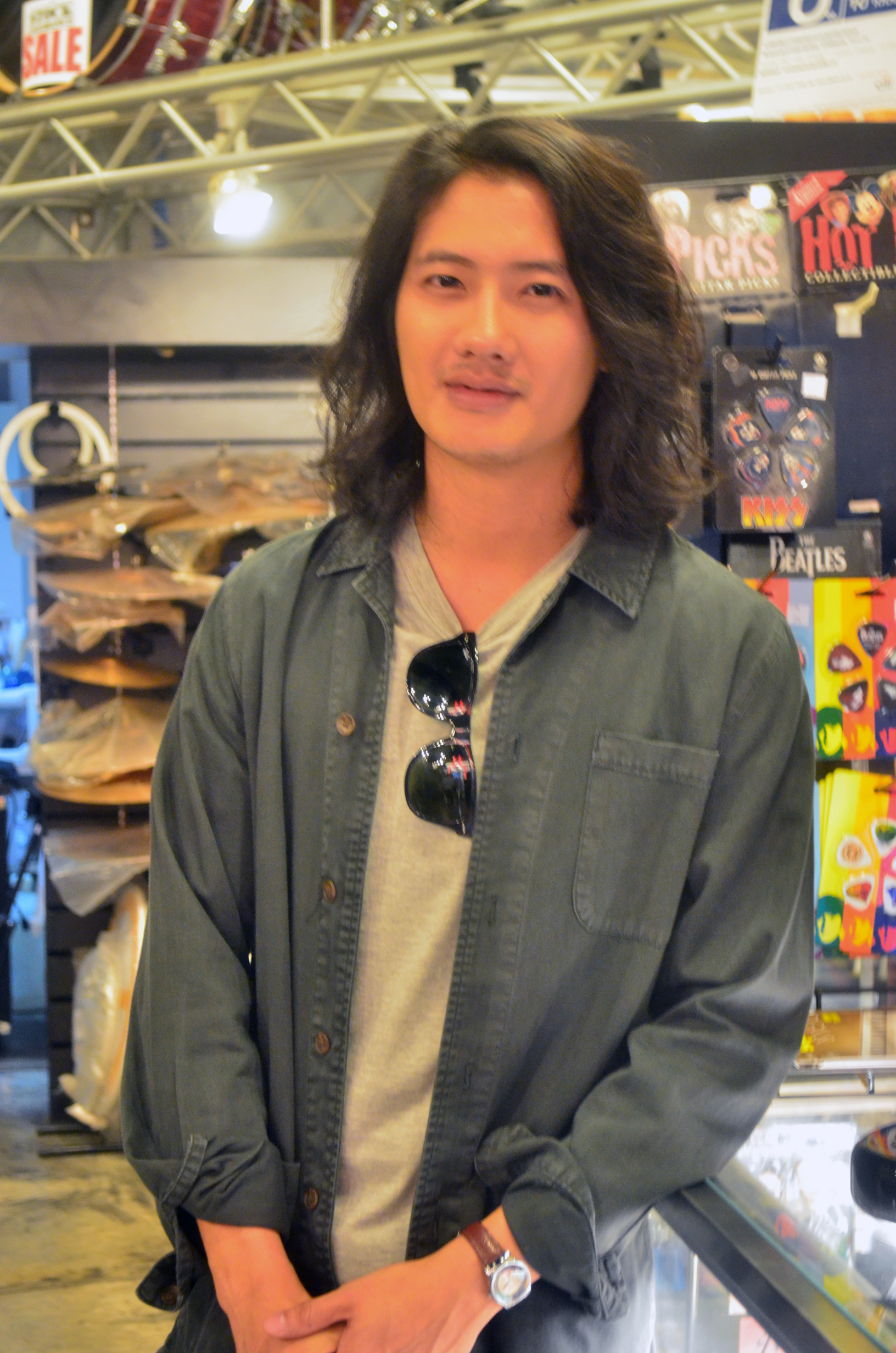 Arak Amornsupasiri